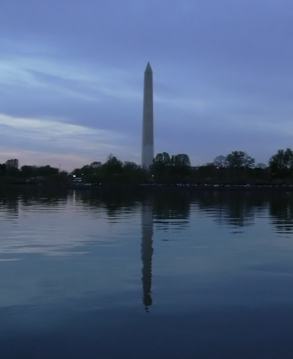 The washington monument, as seen from the Jefferson Memorial.